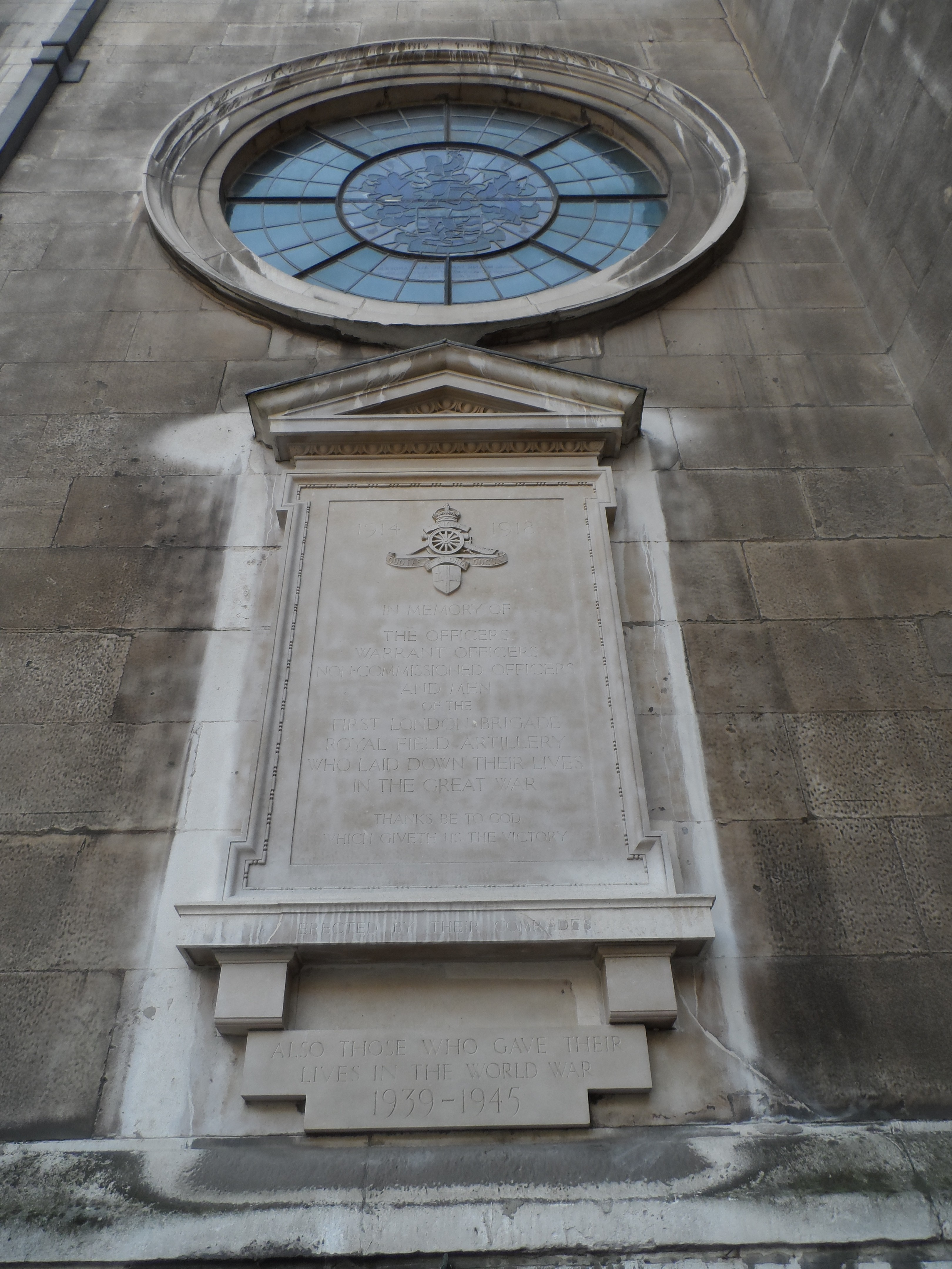 City of London Artillery (First London Brigade Royal Field Artillery) war memorial on the exterior wall (facing Guildhall Yard) of St Lawrence Jewry church, City of London, London, UK. The memorial is mounted below one of the circular stained glass windows. The regimental badge on the memorial includes the Royal Artillery motto: UBIQUE QUO FAS ET GLORIA DUCUNT. The dates given are 1914 to 1918. The main First World War inscription is followed by one for the Second World War: IN MEMORY OF THE OFFICERSWARRANT OFFICERSNON-COMMISSIONED OFFICERSAND MENOF THEFIRST LONDON BRIGADEROYAL FIELD ARTILLERYWHO LAID DOWN THEIR LIVESIN THE GREAT WARTHANKS BE TO GODWHICH GIVETH US THE VICTORY ERECTED BY THEIR COMRADES ALSO THOSE WHO GAVE THEIRLIVES IN THE WORLD WAR1939-1945